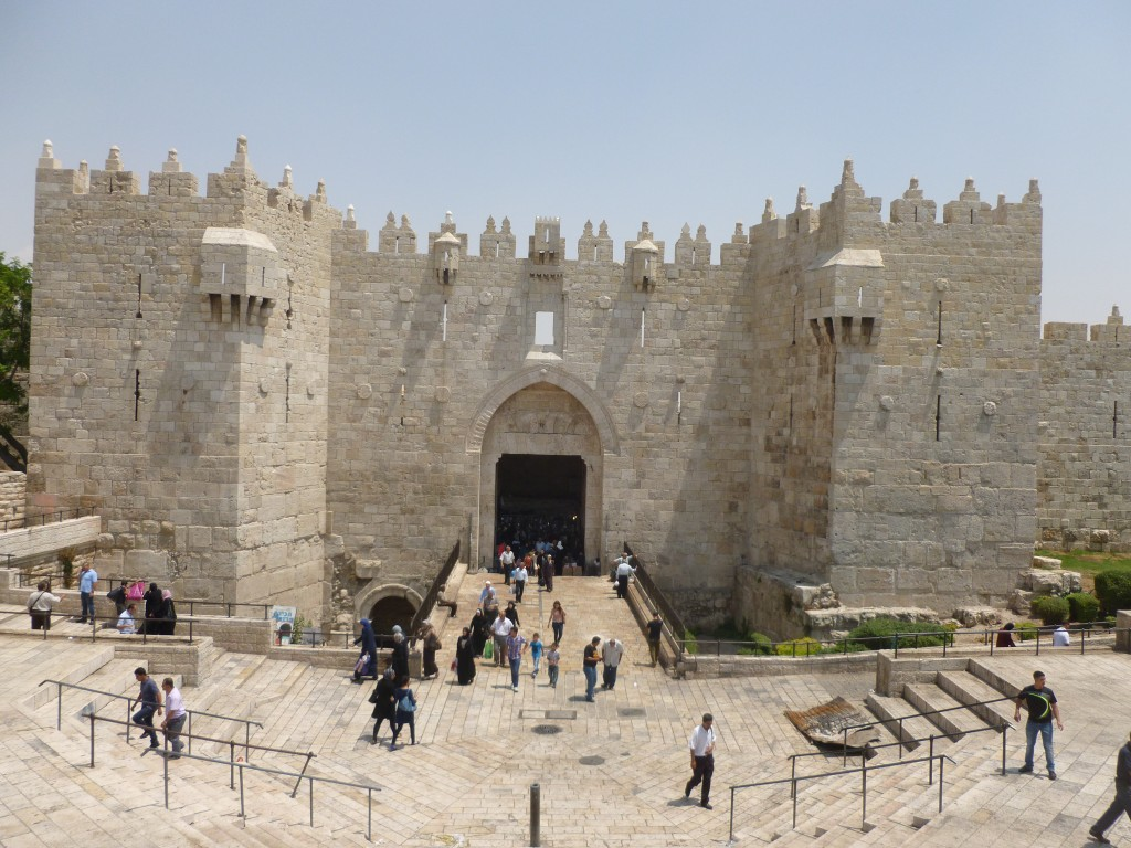 The Damascus Gate, the most beautiful of the Old City of Jerusalem's Gates. Built under the direction of Suleiman the Magnificent in the 16th Century, you can see the earlier Roman arch below the entrance to the left.